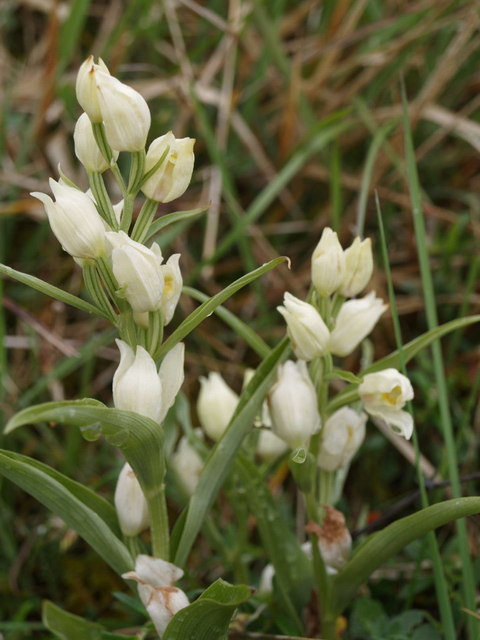 White helleborine on Kimsbury Cephalanthera damasonium growing on one of the steep banks on the southeast side of the hillfort on Painswick Hill.